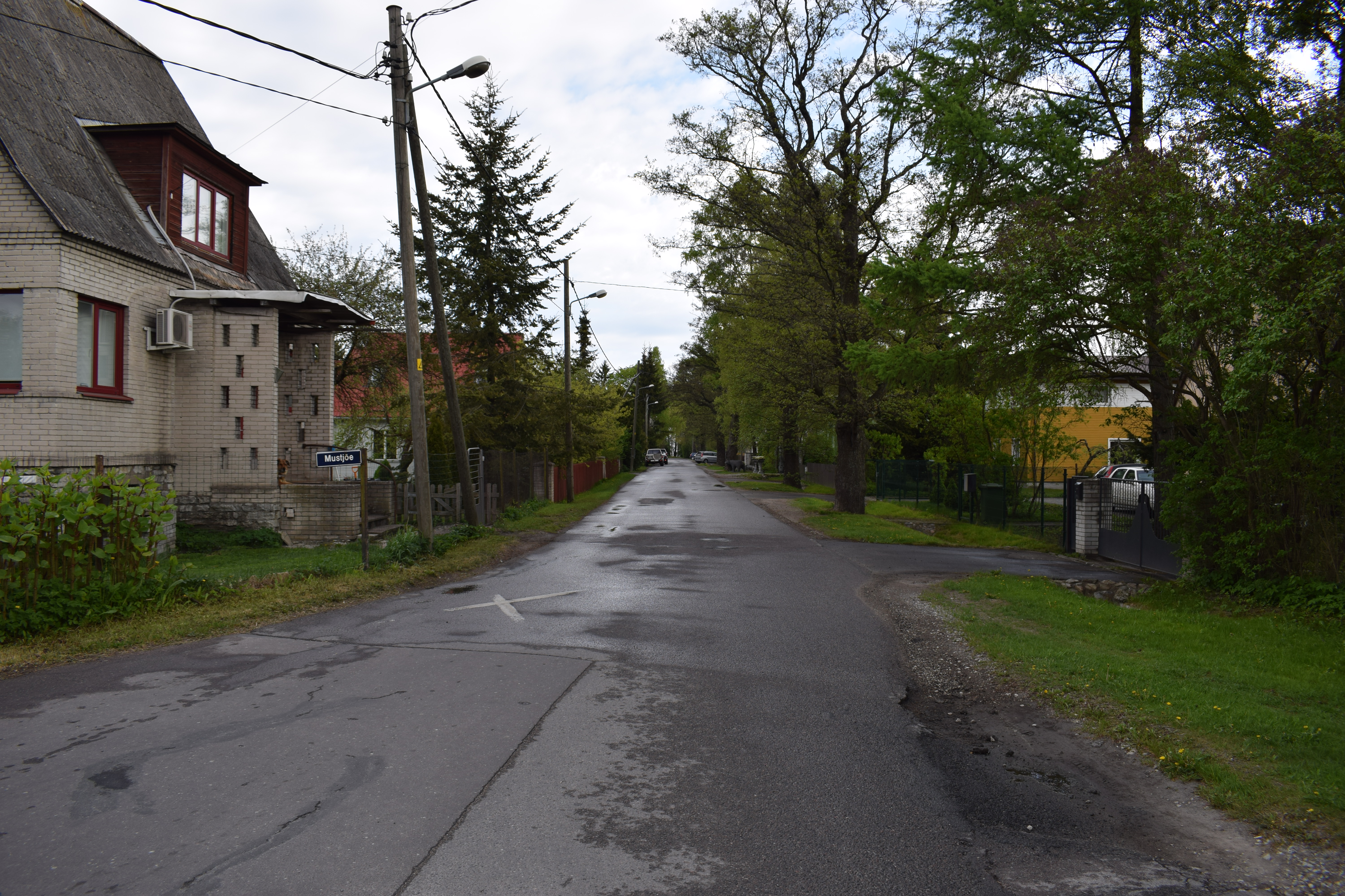 Mustjõe street